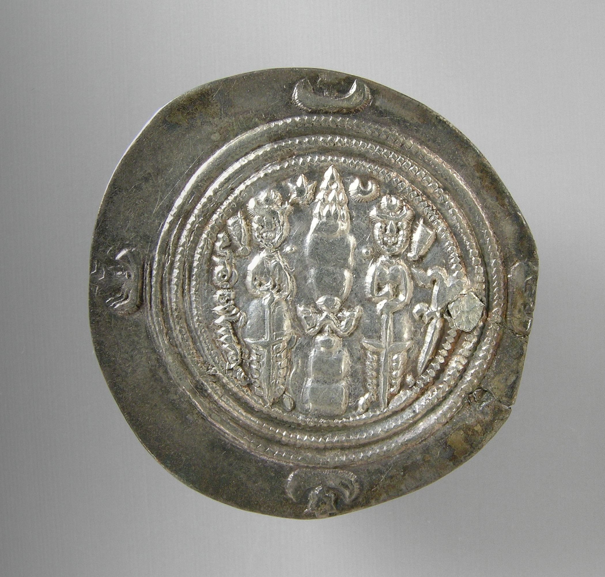 Iran, Rayy, Sasanian, Sasanian Period, reign of Khosro II (591–628) Tools and Equipment; coins Silver The Madina Collection of Islamic Art, gift of Camilla Chandler Frost (M.2002.1.448) Islamic Art Currently on public view: Hammer Building, floor 3